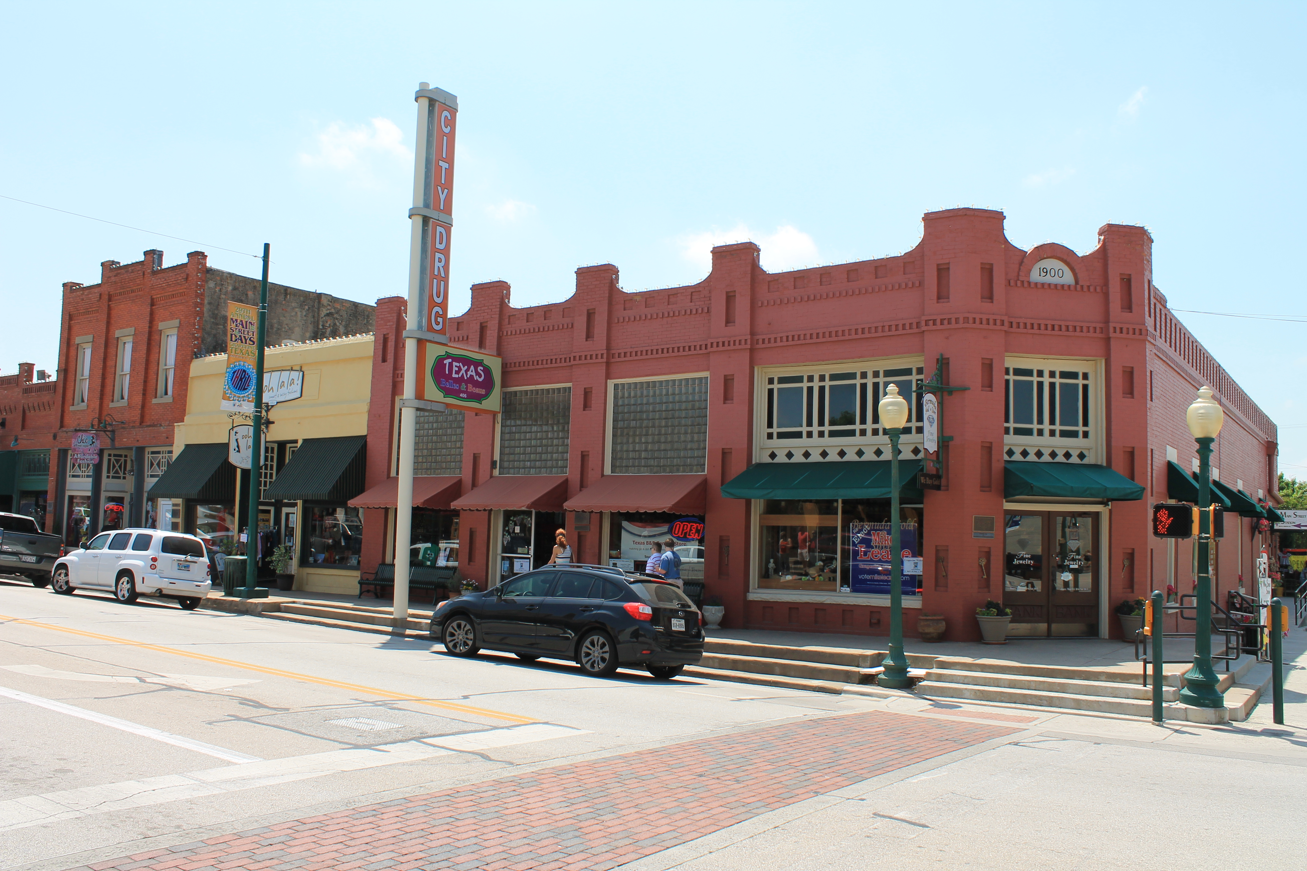 Grapevine Commercial Historic District